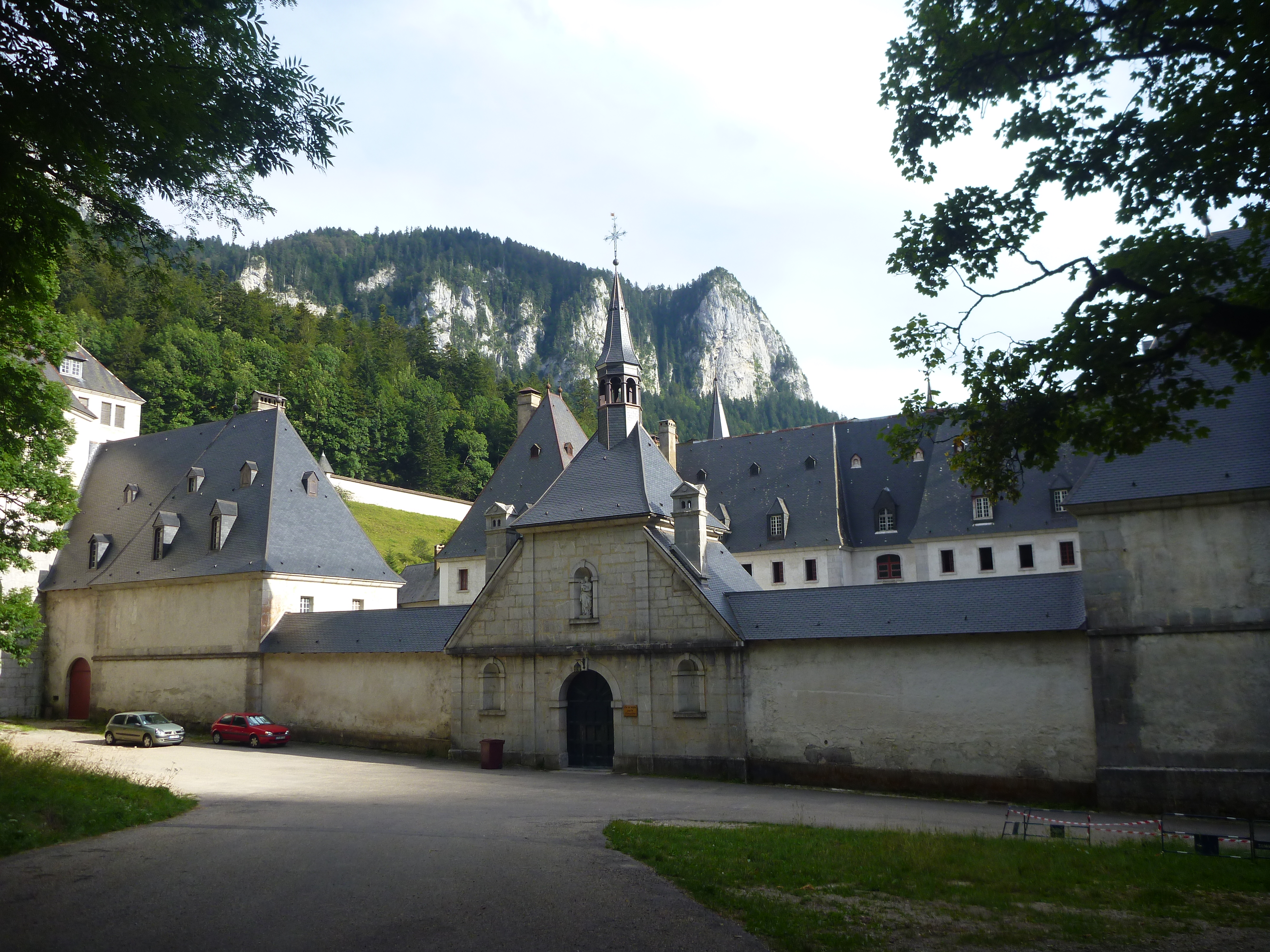 Grande Chartreuse monastery entrance